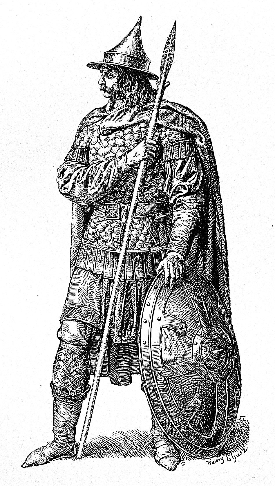 Lestek, semi-legendary duke of the Polans